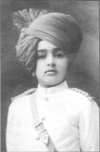 Maharaja Karni Singh before II WW